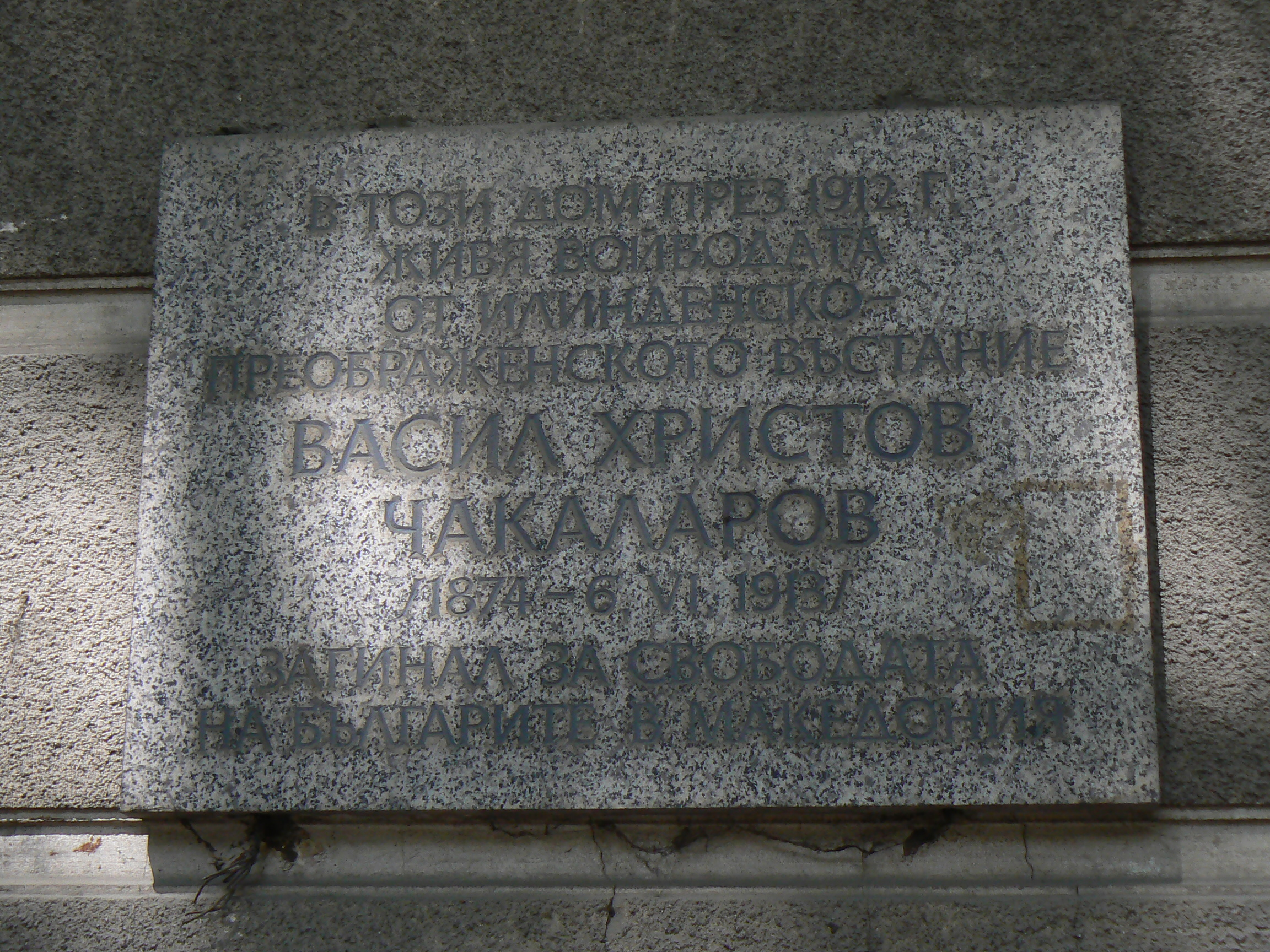 The memorial plaque on the building where Vasil Chakalarov lived. Sofia. Bulgaria